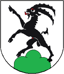 Coat of arms of the circle Fünf Dörfer, Canton of Graubünden, Switzerland